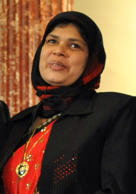 2010 International Women of Courage Awards - individual awardees with Secretary of State Hillary Clinton and First Lady Michelle Obama